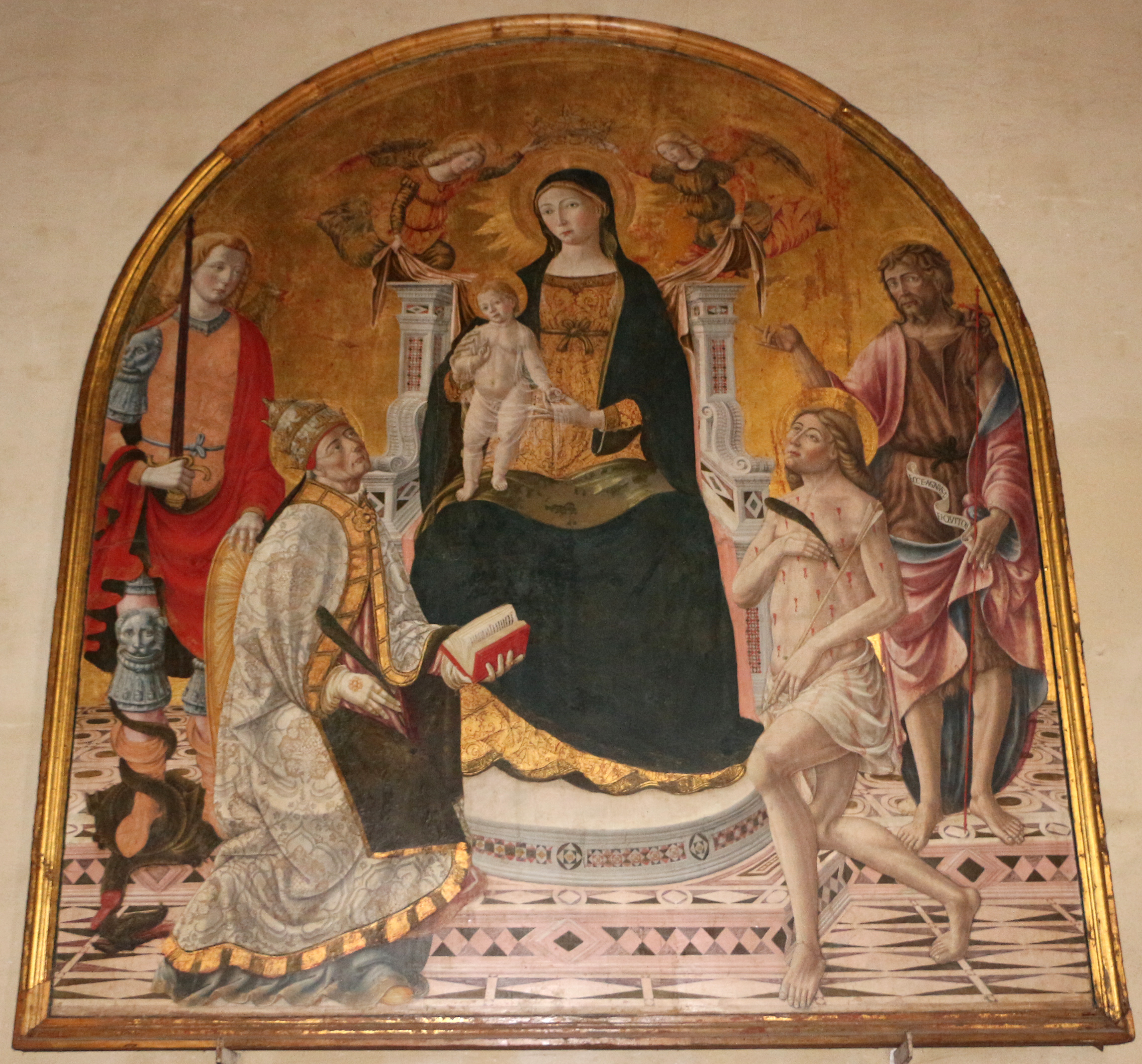 San Michele Arcangelo (Paganico)